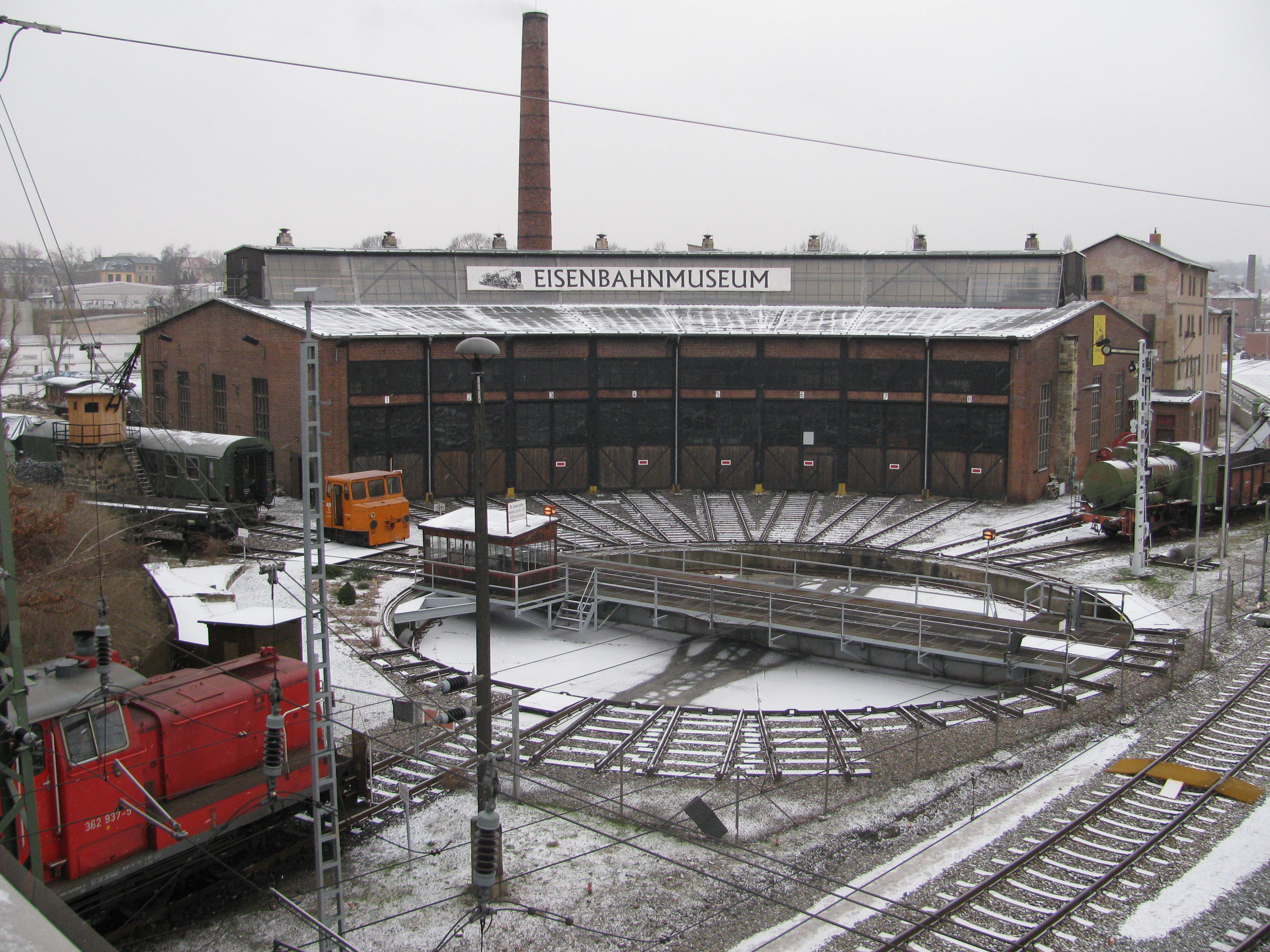 Railway Museum Dresden in winter, seen from a nearby bridge (Nossener Brücke)